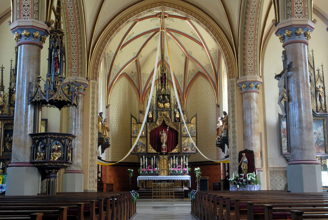 Garmisch-Partenkirchen, Curch "Maria Himmelfahrt", inside